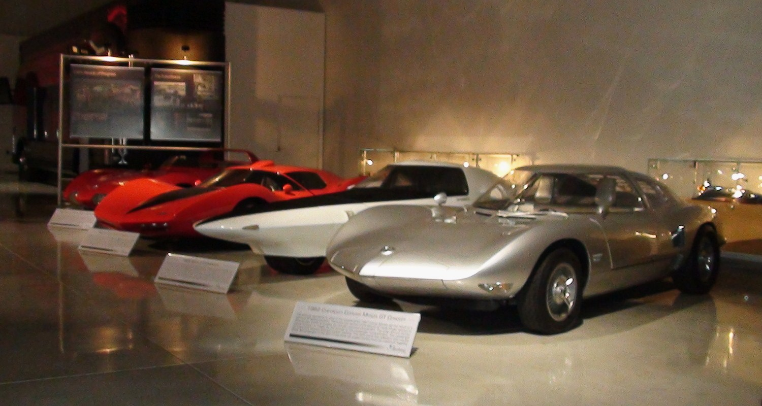 GM Heritage Center.